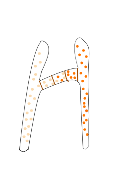 Mating of zygomycetes fungi Cayte Made with Inkscape and GIMP